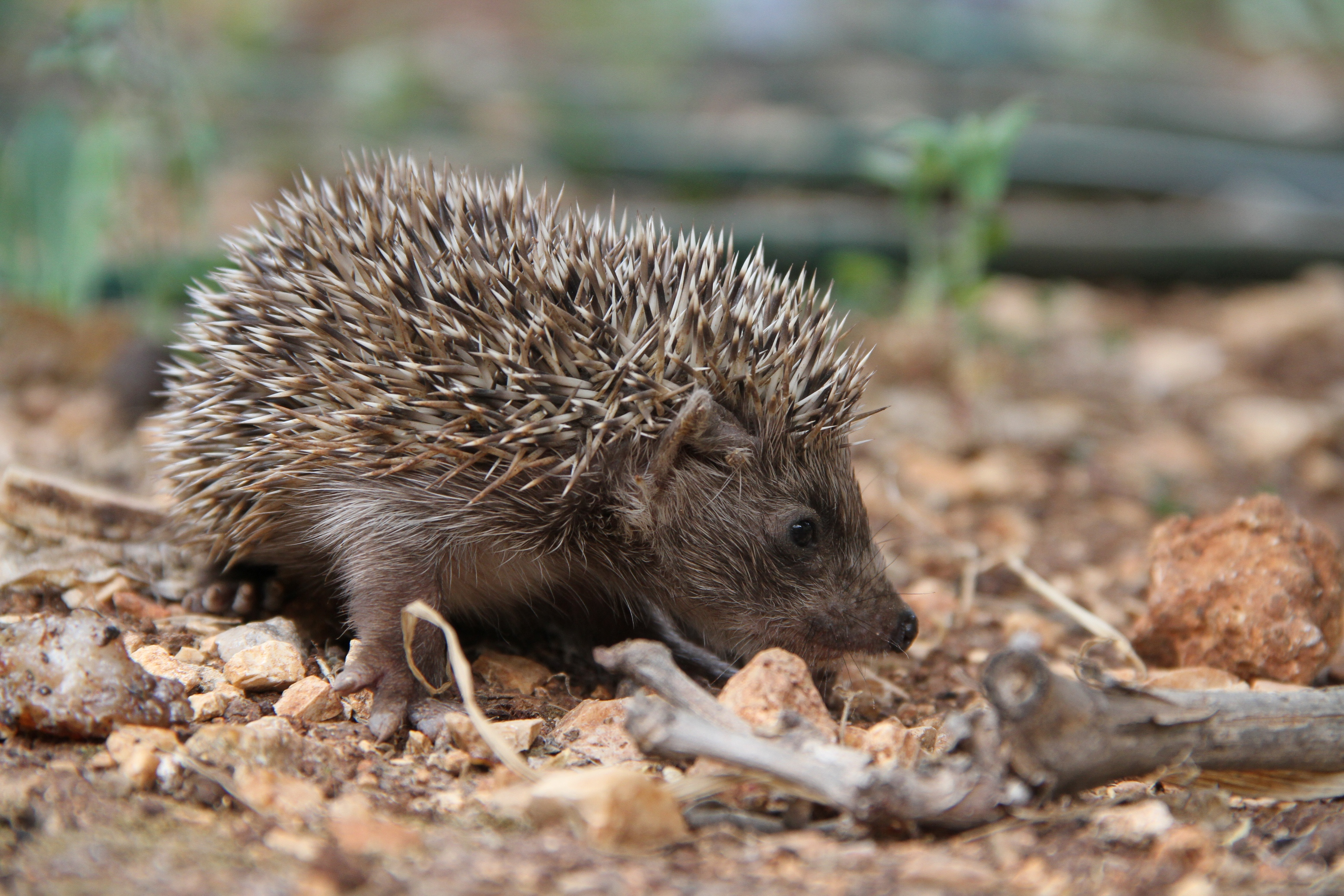 Wildlife and Plants of Israel